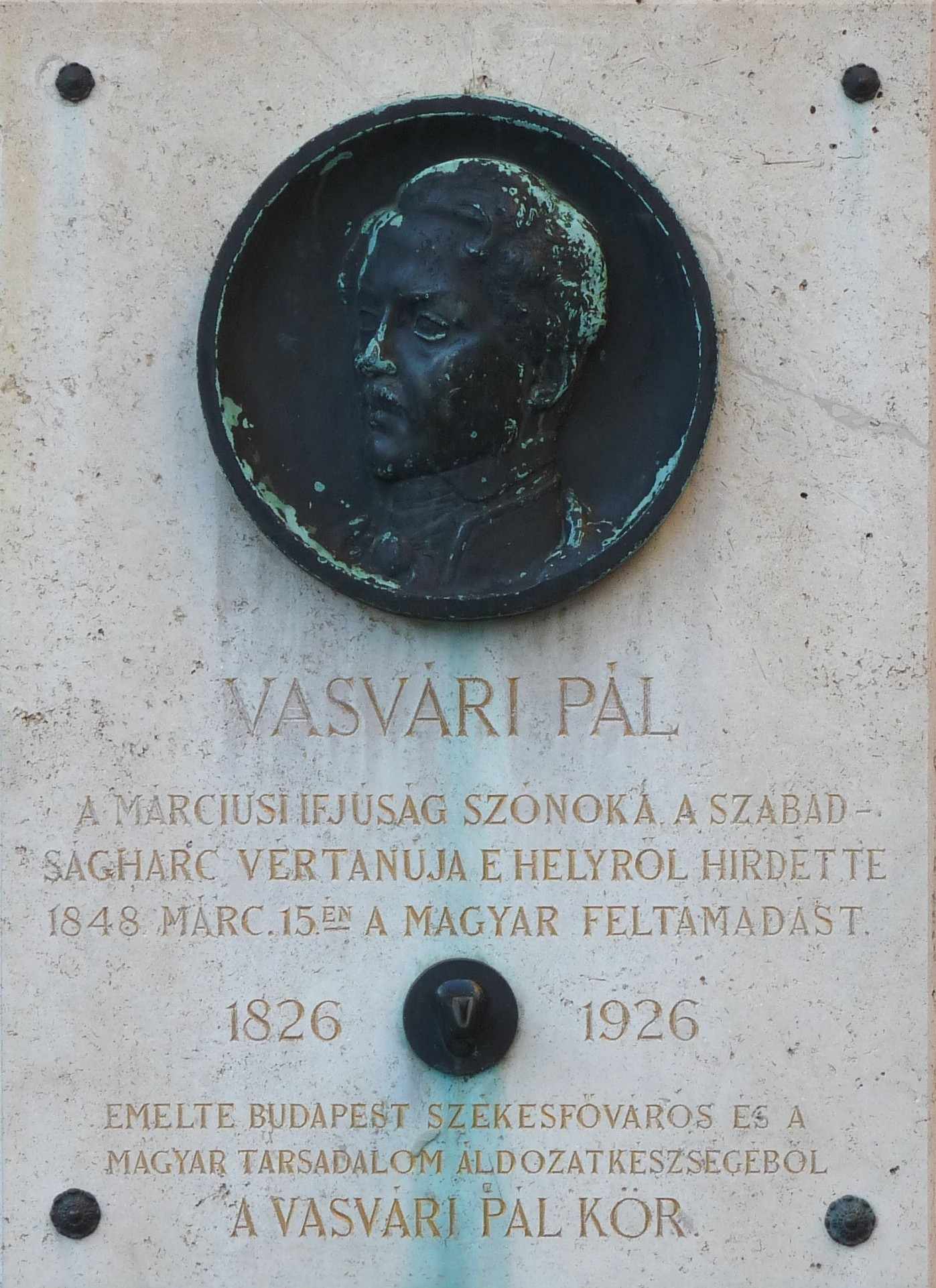 Pál Vasvári commemorative plaque with relief in Budapest District VIII, Múzeum Boulevard No 14-16. The bronze relief was created by Miklós Ligeti.